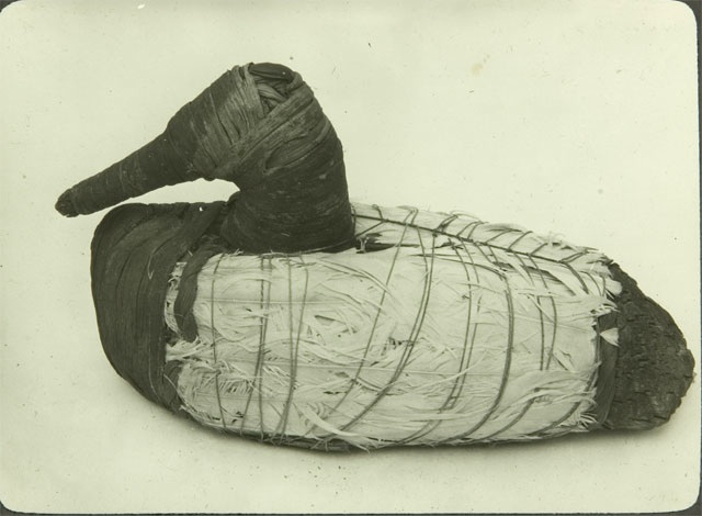 A canvasback drake duck decoy, found in the Lovelock Cave archaeological site, Nevada, USA.